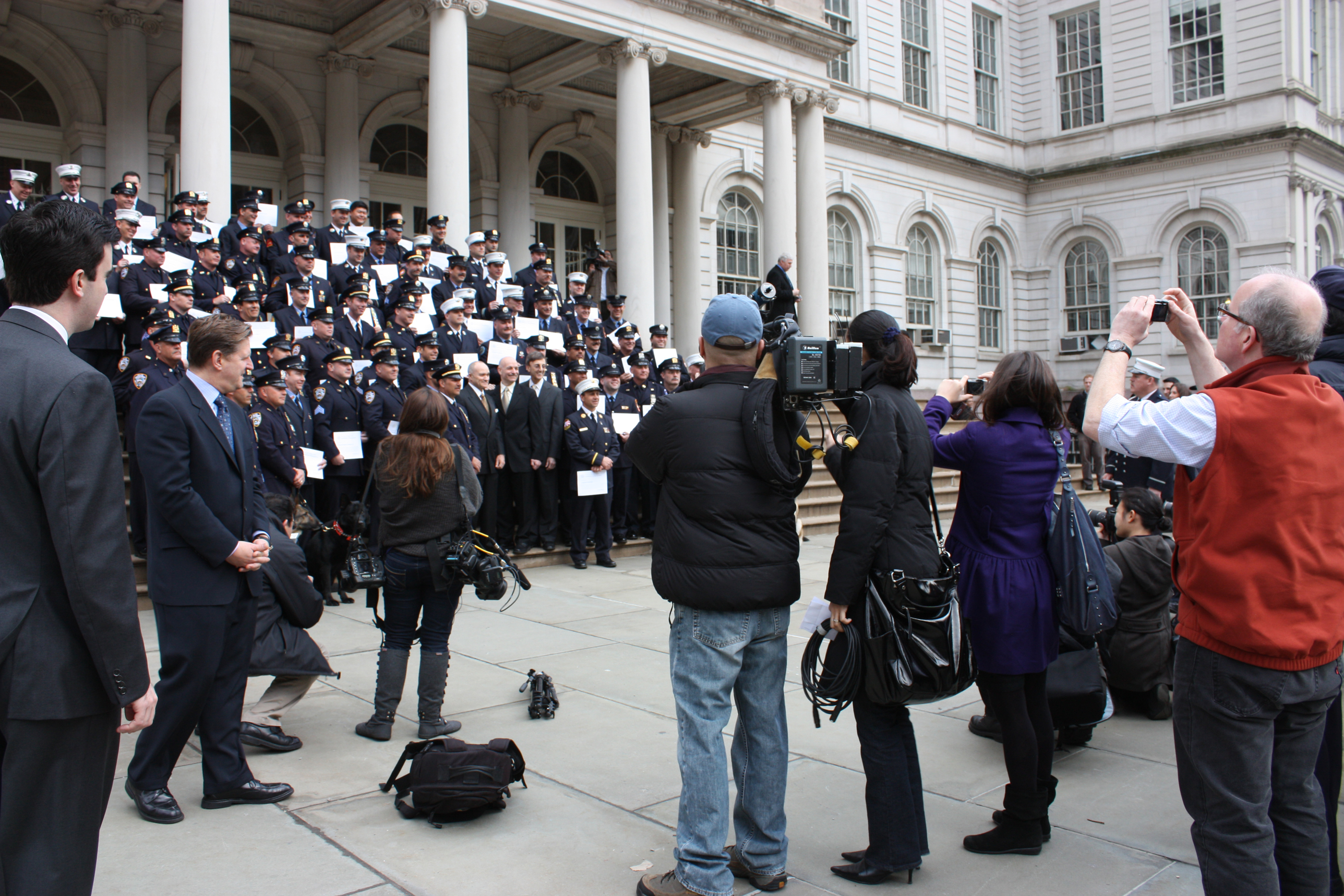 New York City, NY, January 26, 2010 -- New York-Task Force One was recognized in New York City for their life-saving work in Haiti. Elissa Jun/FEMA